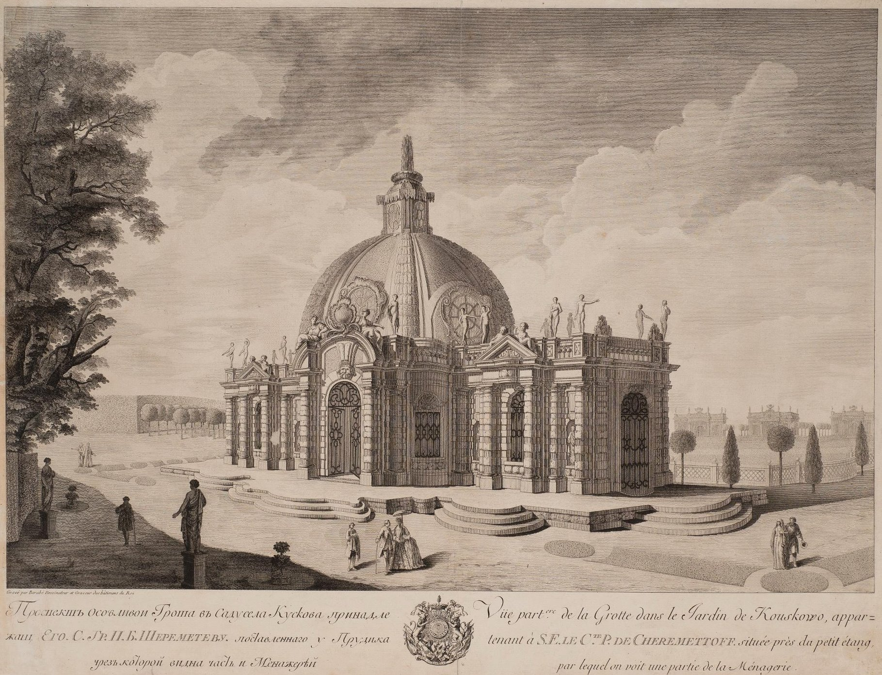 Grotto in Kuskovo